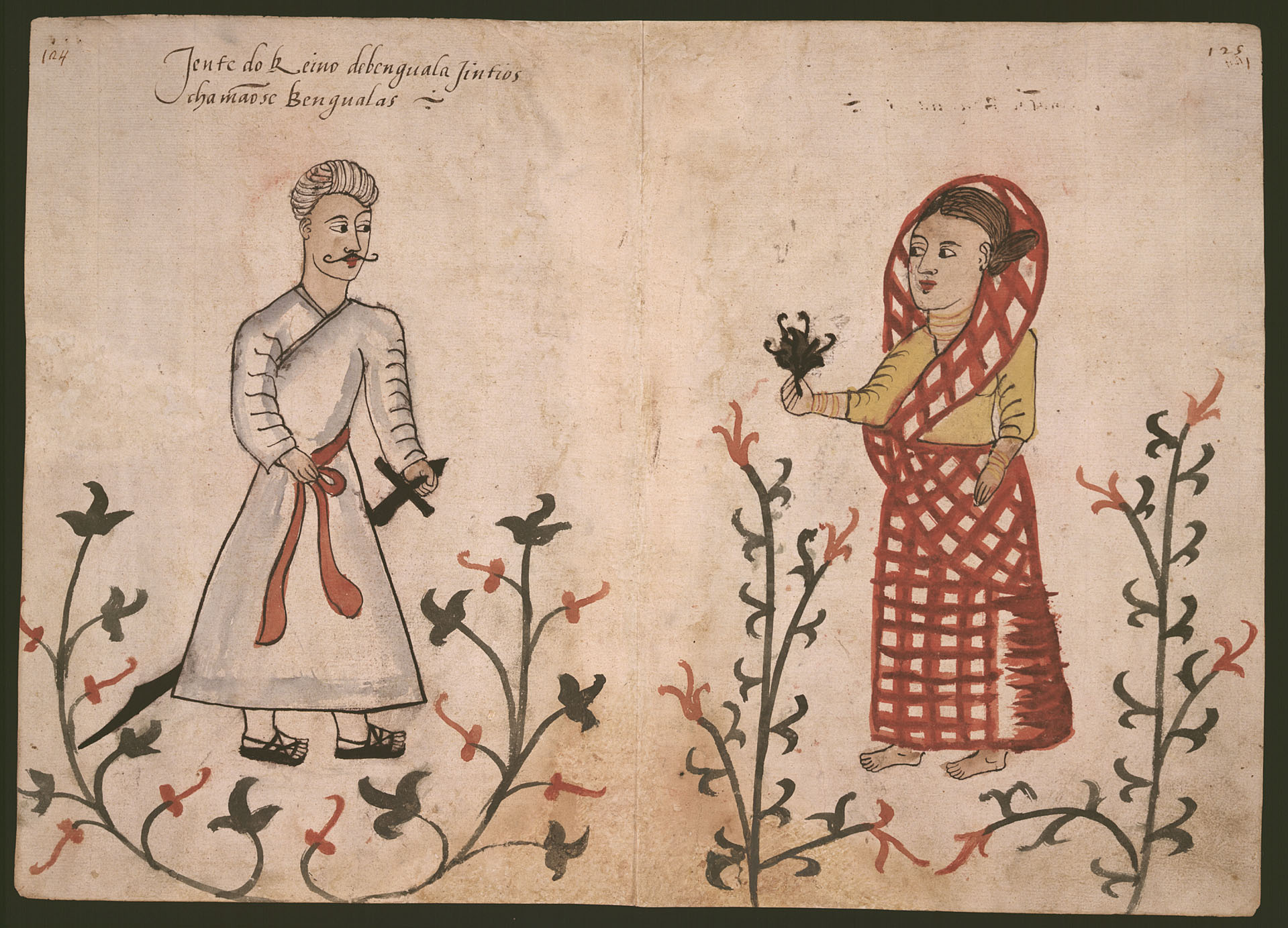 Anonymous 16th century Portuguese illustration contained within the Códice Casanatense, depicting a couple from Bengal. The inscription reads: "People from the Kingdom of Bengal, gentiles, called Bengalis."